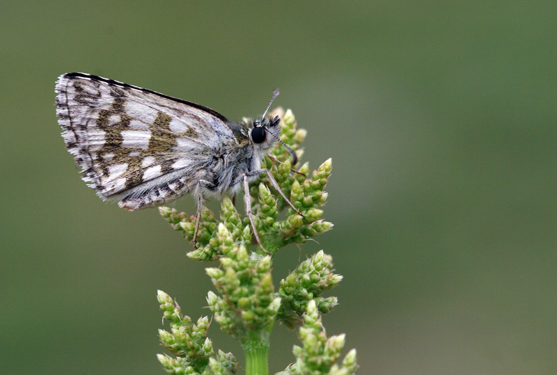 An underwing view of Olive Skipper (Pyrgus serratulae). Bolkarlar, Nigde, Turkey, 15th July, 2011. 2300 m.